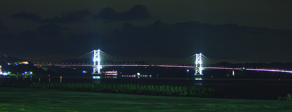 own picture taken on digital camera Jan. 2005